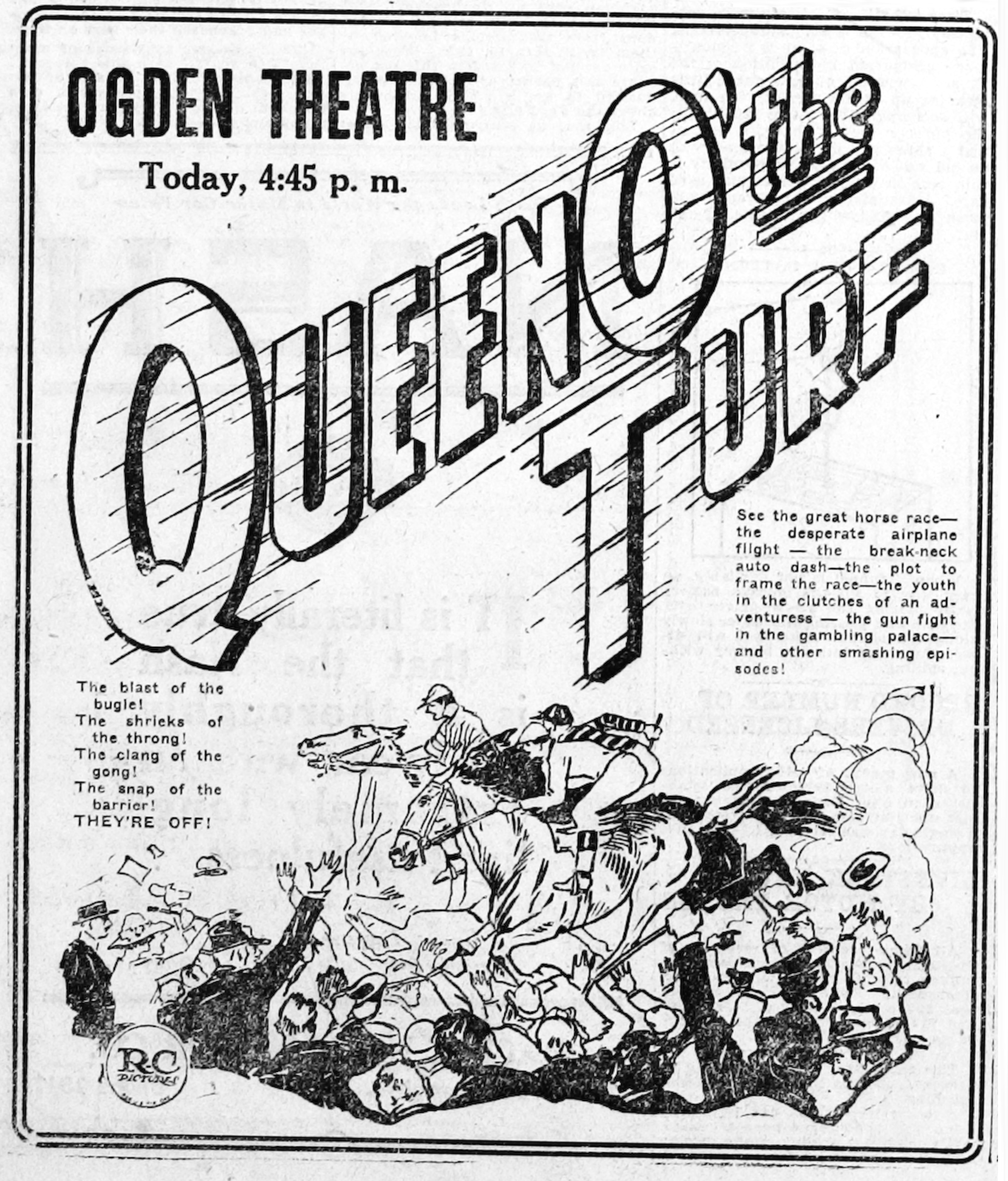 Silks and Saddles is a 1921 Australian film set in the world of horse racing directed by John K. Wells. The film is also known as Queen o' Turf or Queen of the Turf in the USA. This is an advertisement for the film under its American title.